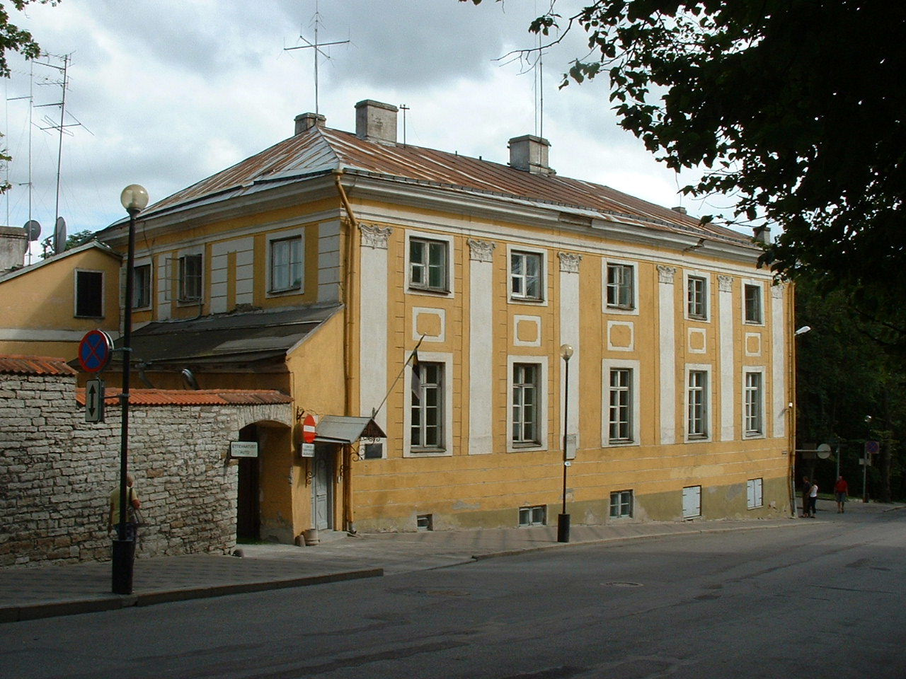 House of the military commander of Reval (Tallinn)